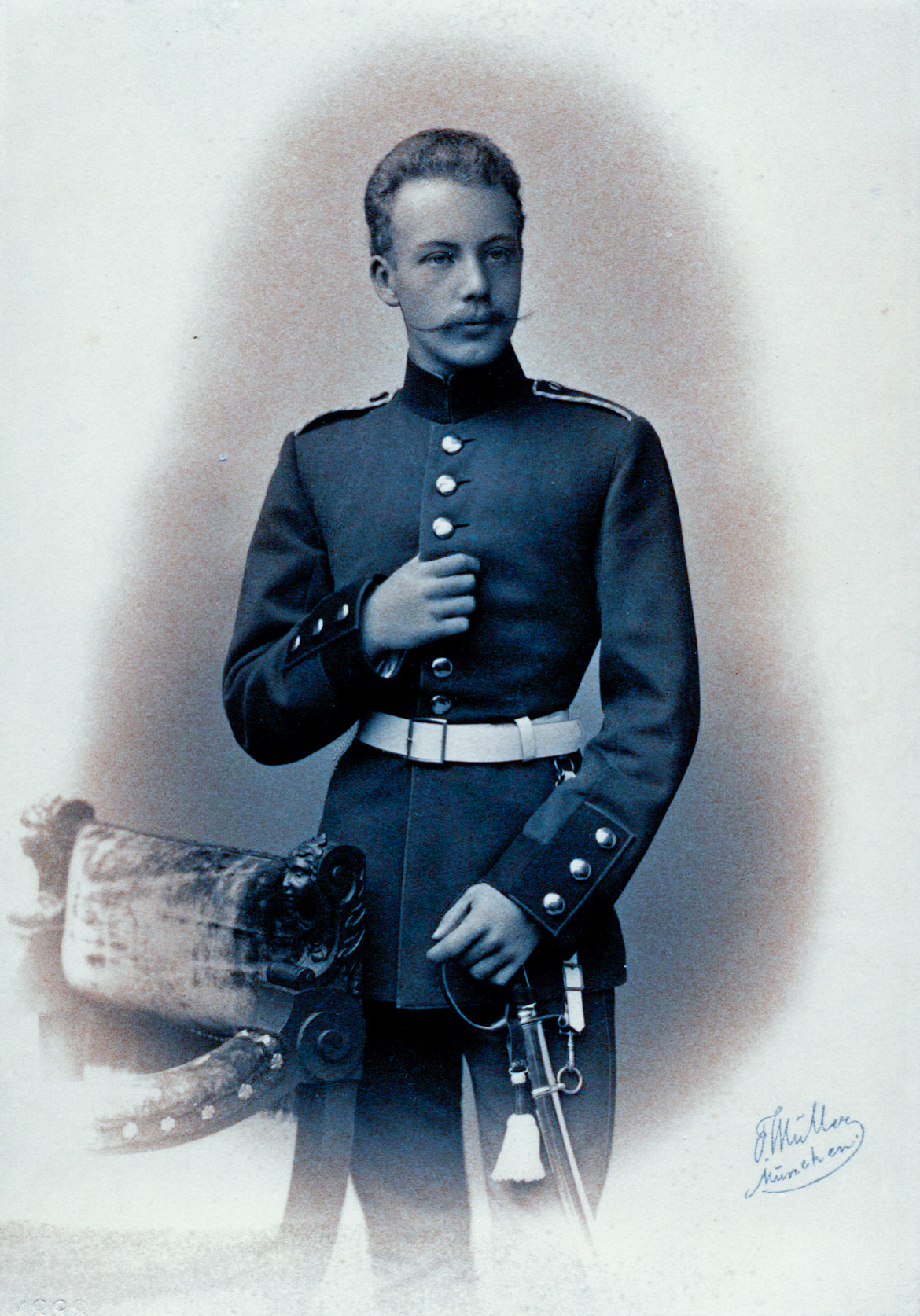 Robert Pschorr photographed by F Müller, Munich